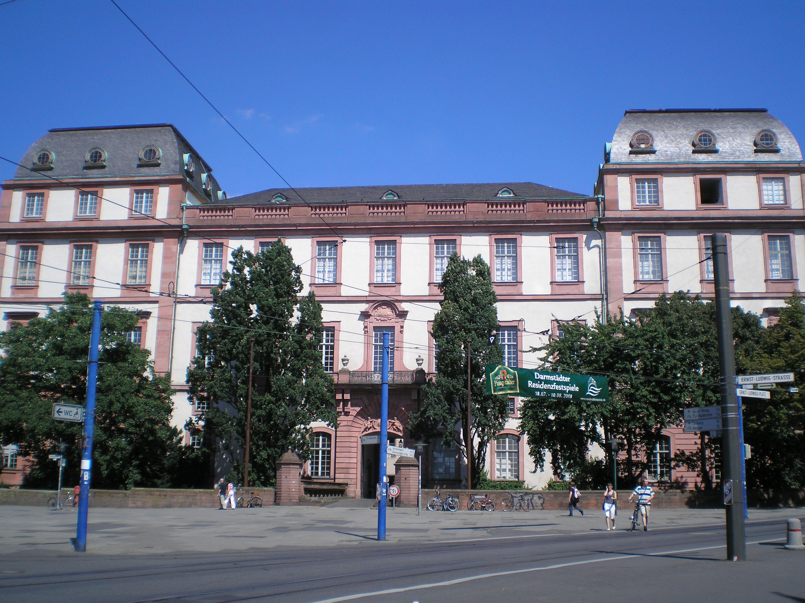 Residenzschloss in Darmstadt.